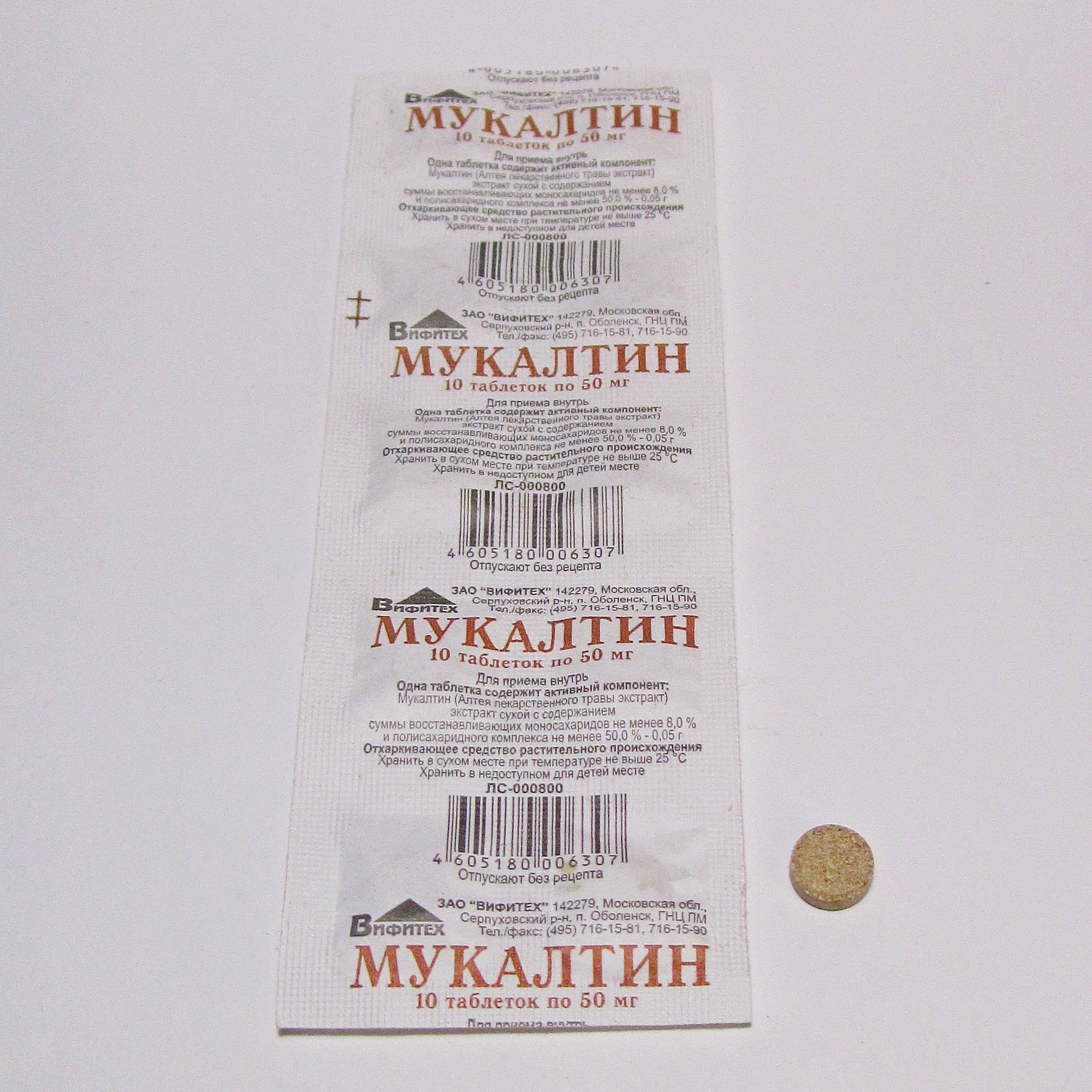 Mucaltinum.